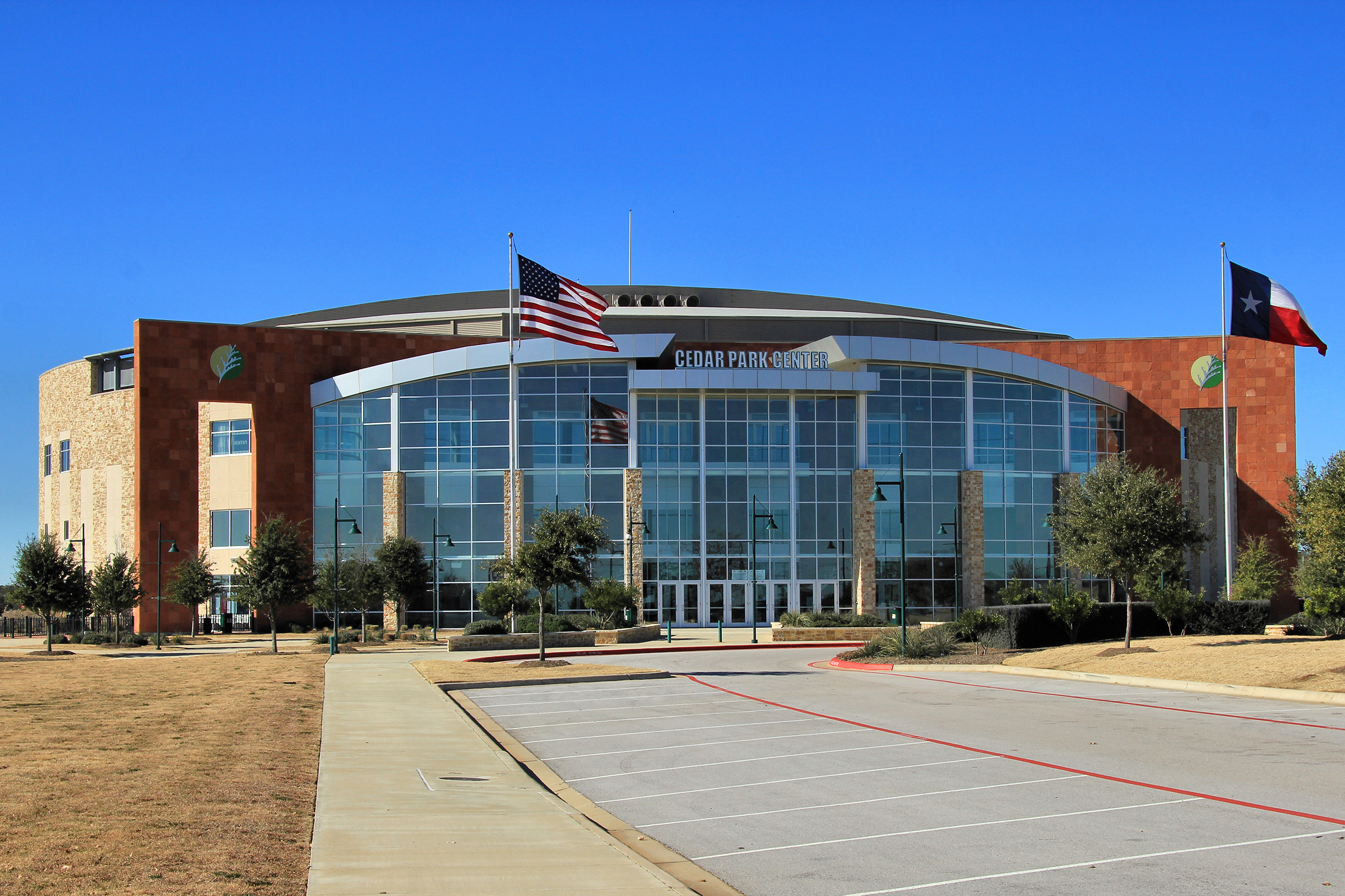 Cedar Park Center in Cedar Park, Williamson County, Texas, United States. The center is home to the Texas Stars ice hockey team, the primary affiliate of the NHL’s Dallas Stars, and it is also home to the Austin Spurs, the NBA Development League affiliate for the San Antonio Spurs.